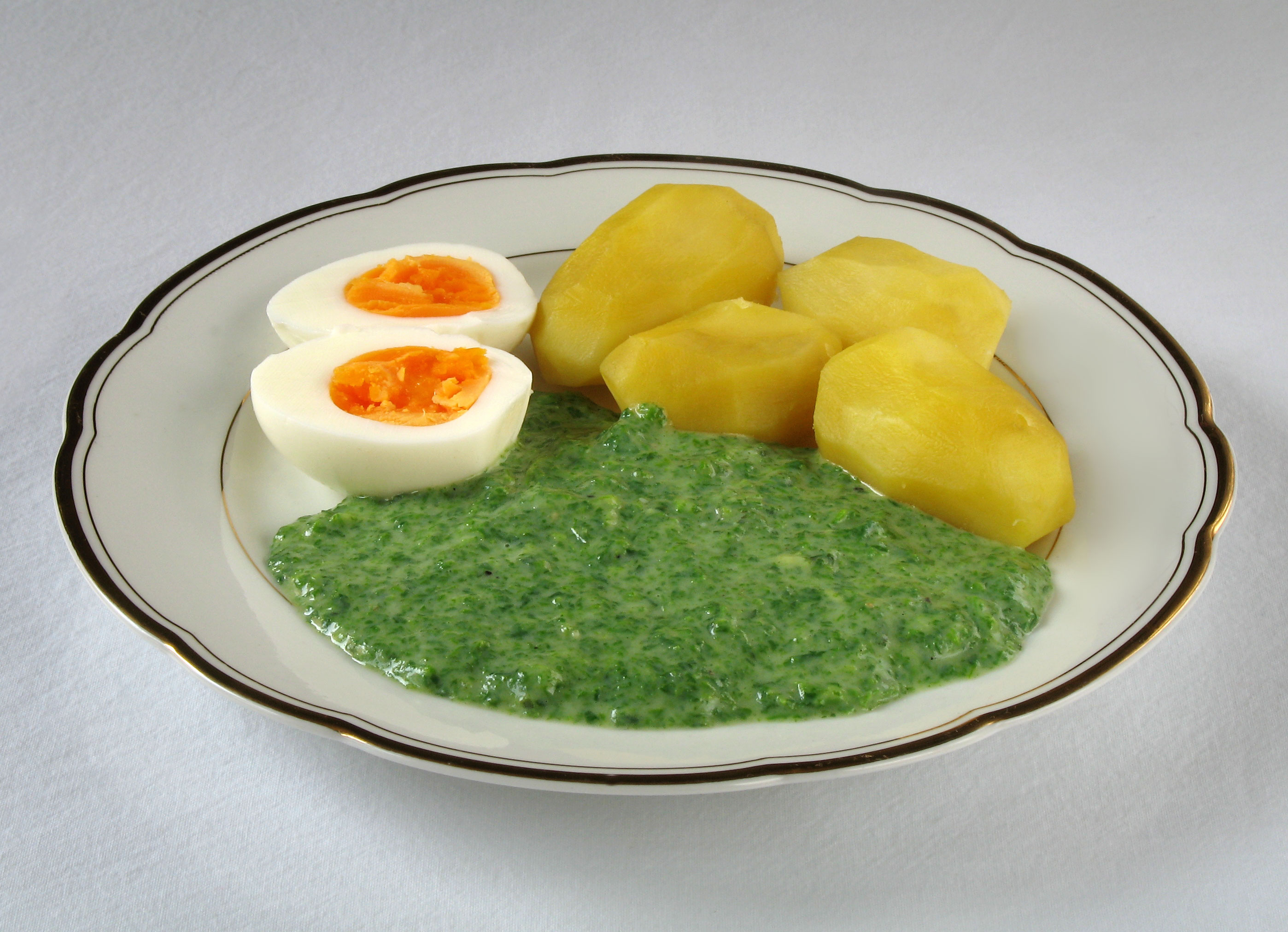 Urtica-Spinach with eggs and potato.